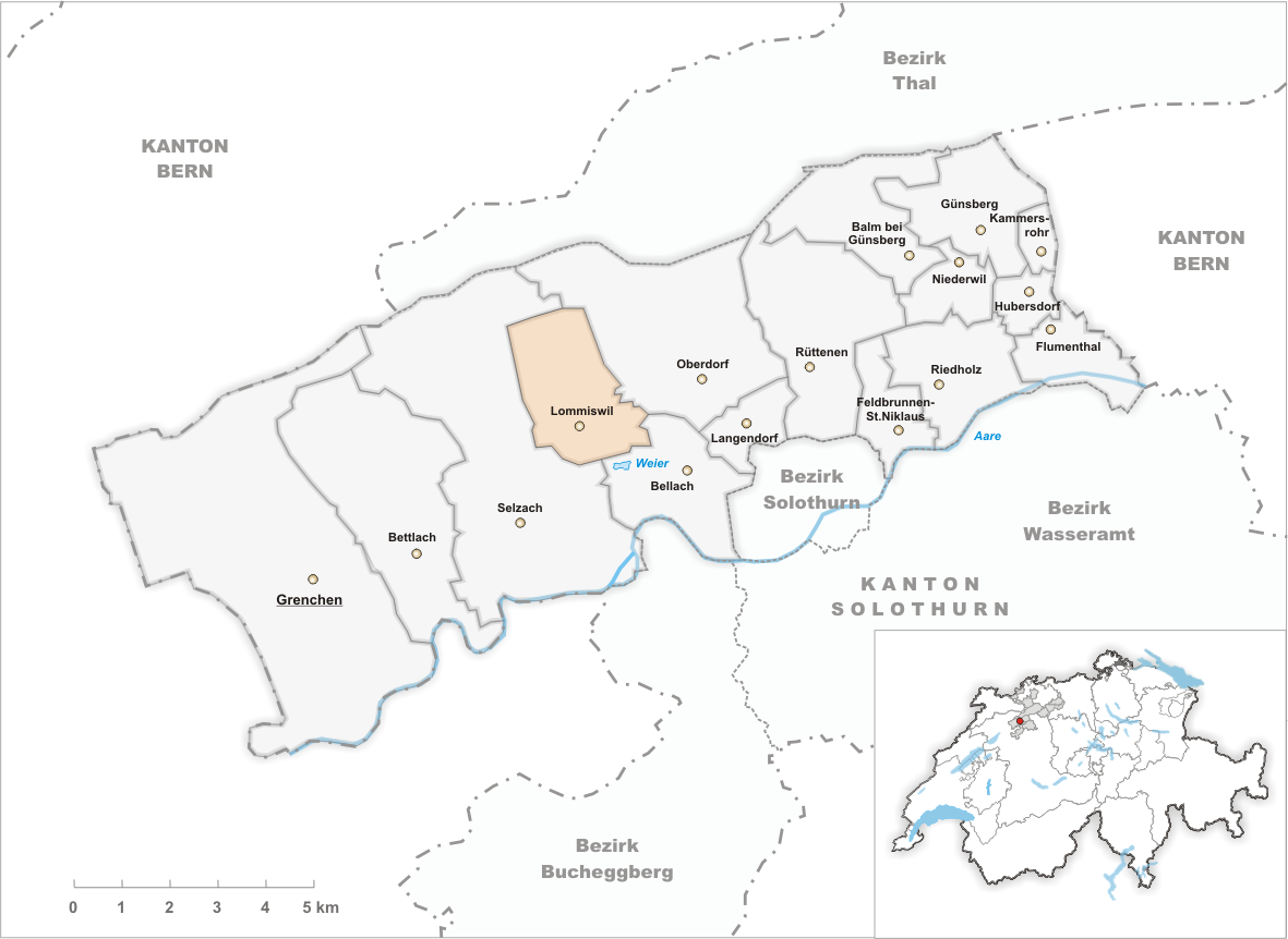 Municipality Lommiswil